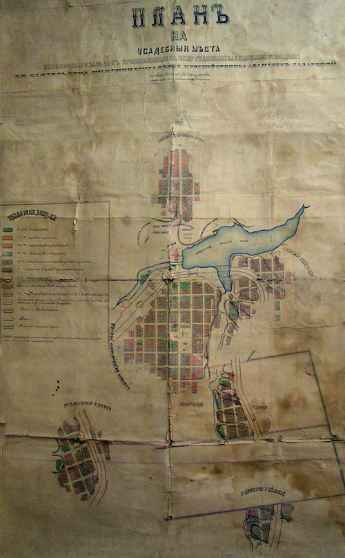 Kizel plan